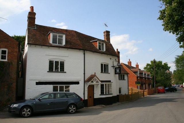 Another lost pub Another pub lost to us just along Bridge end Dorchester.